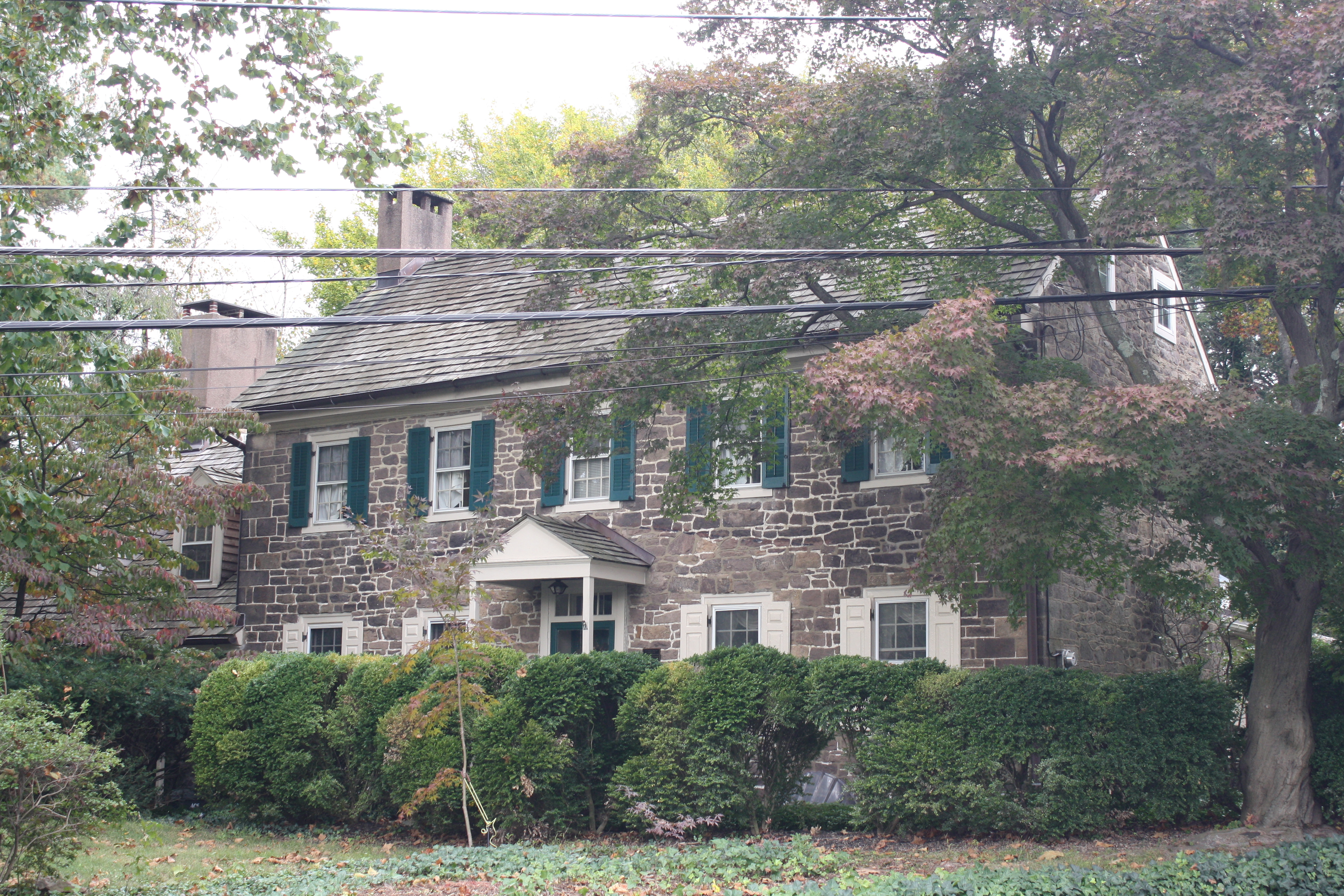 Willow Mill Complex, Shaw-Leedom House, built about 1800. Richboro, Northampton Township, Bucks County, Pennsylvania. 570 Bustleton Pike. Object location40° 11′ 58″ N, 75° 00′ 38″ W